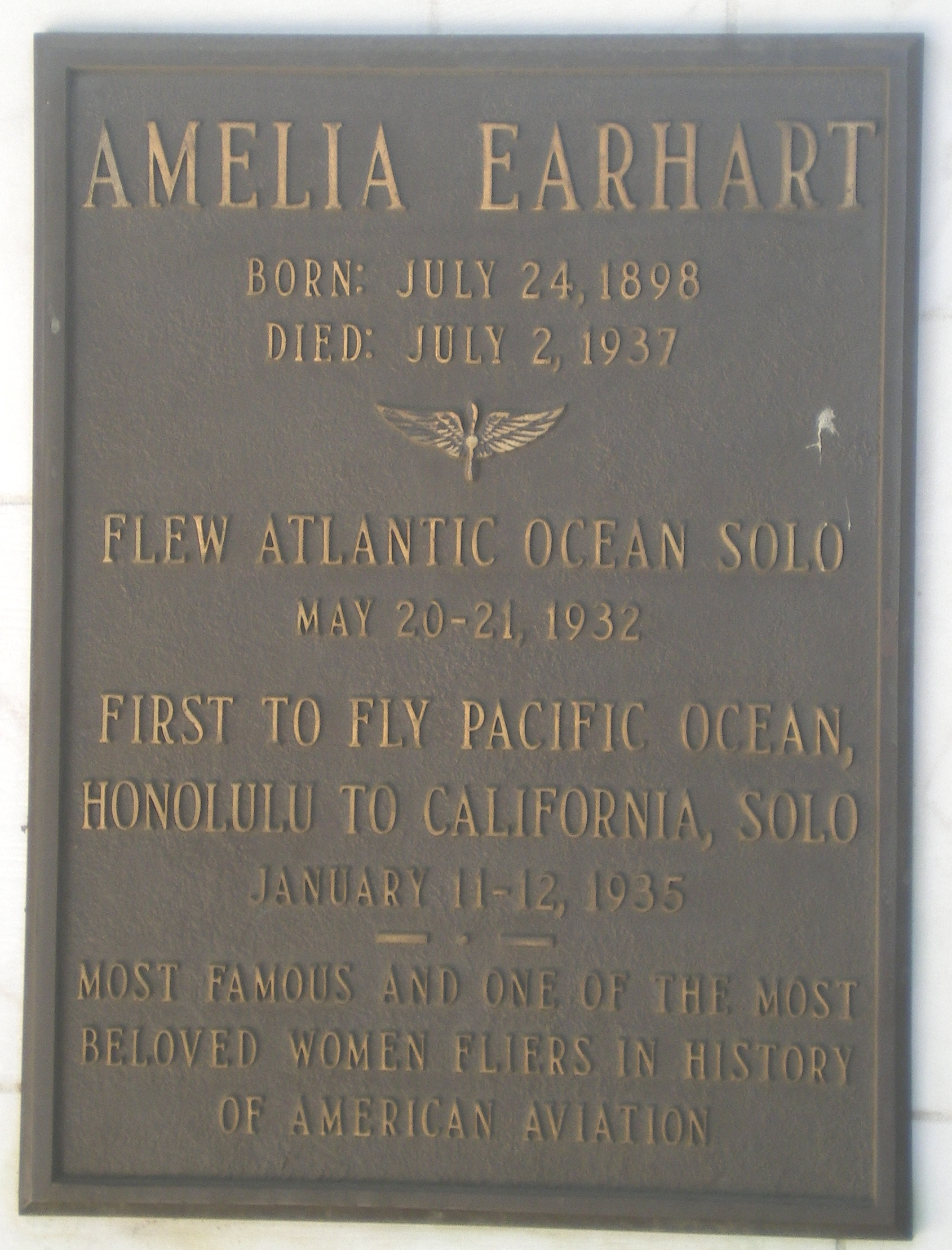 Amelia Earhart Plaque at Valhalla Memorial Park, North Hollywood, CA